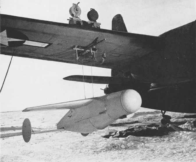 A Bat self-homing bomb on its hoist below the wing of a U.S. Navy Consolidated PB4Y-2 Privateer in the mid-1940s.